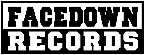 The logo to Facedown Records. Found originally by Metalworker14.